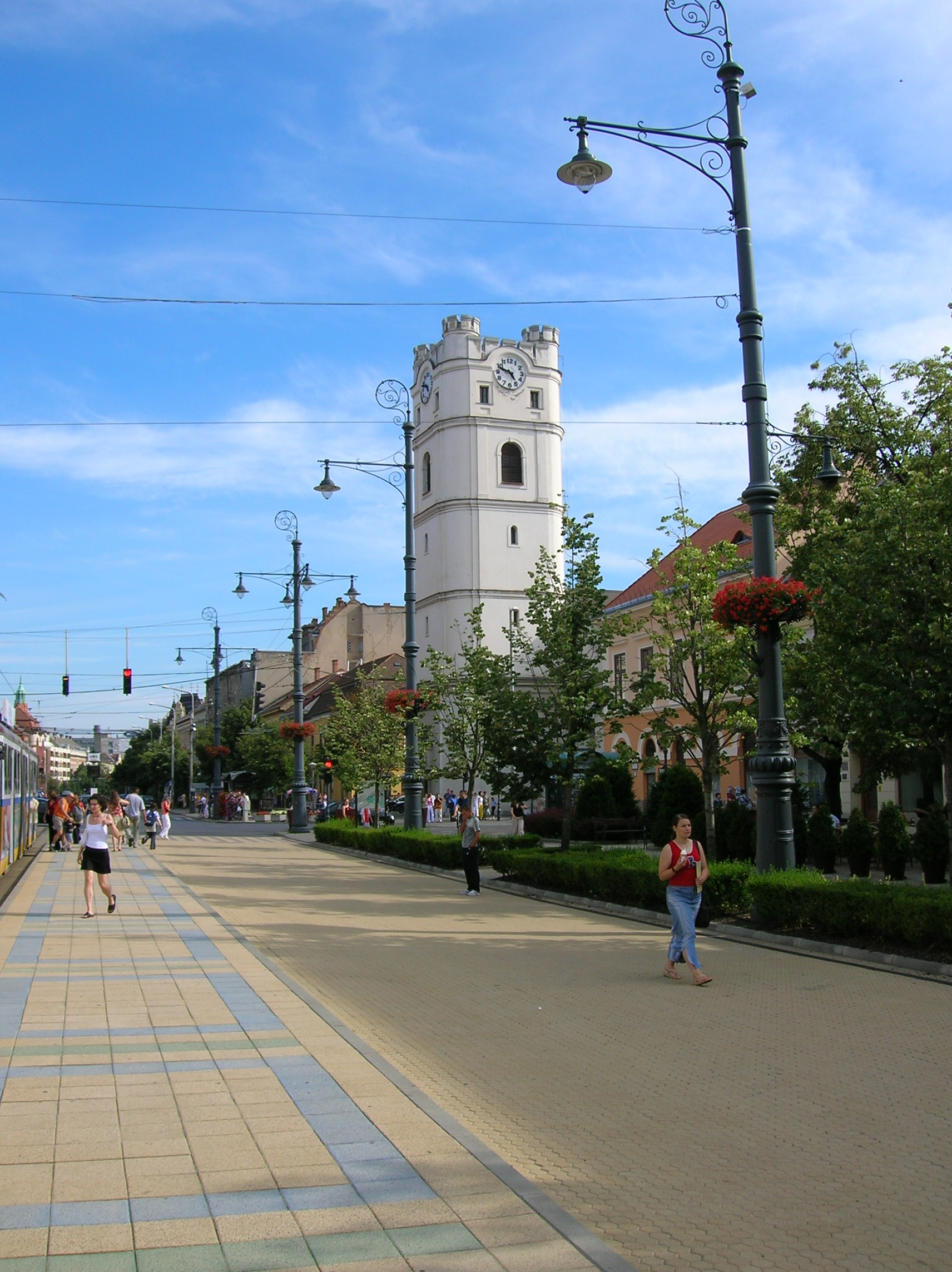 The "Csonkatorony" ("truncated tower") in downtown Debrecen.